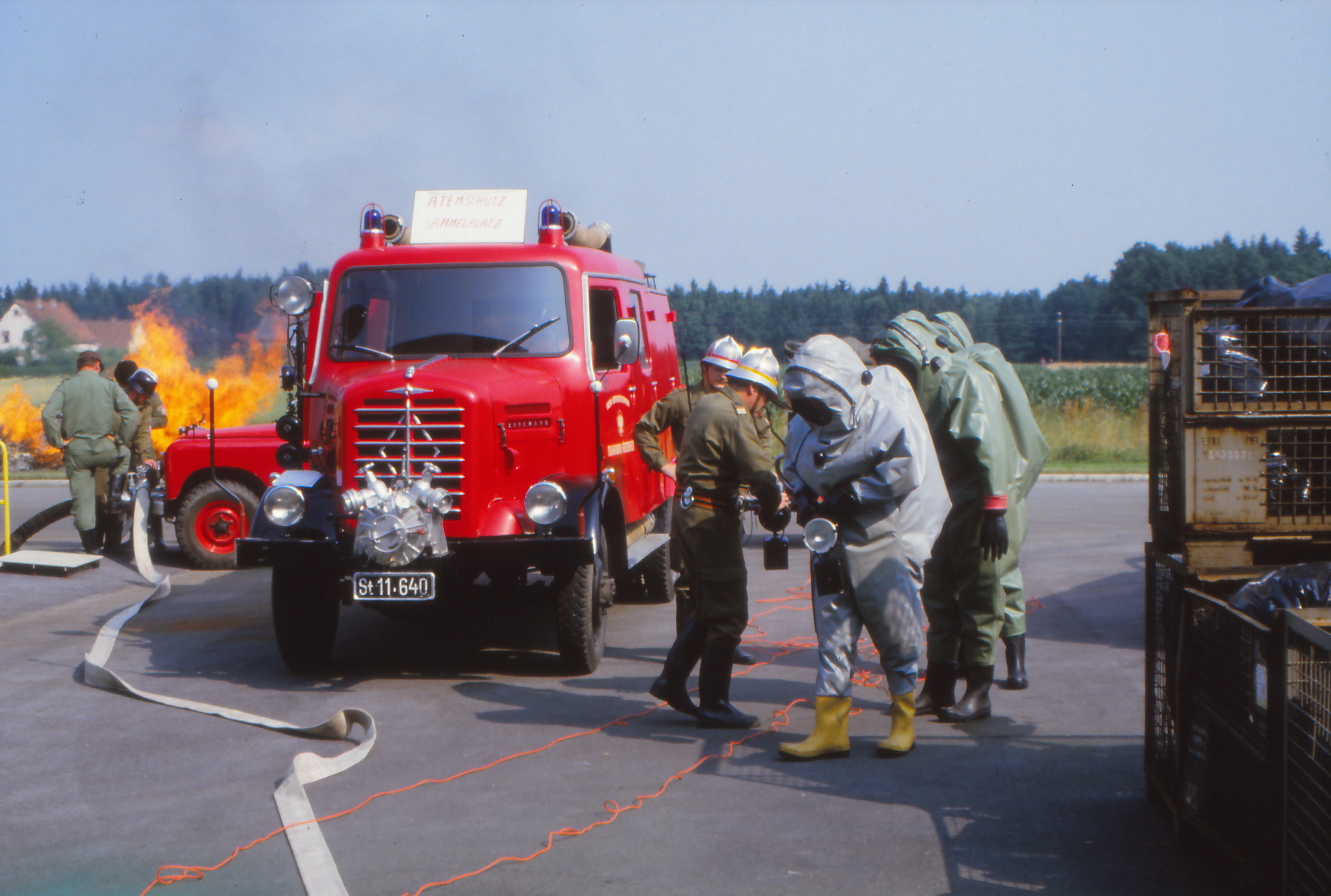 Austria Tabak Tabakfabrik Fürstenfeld